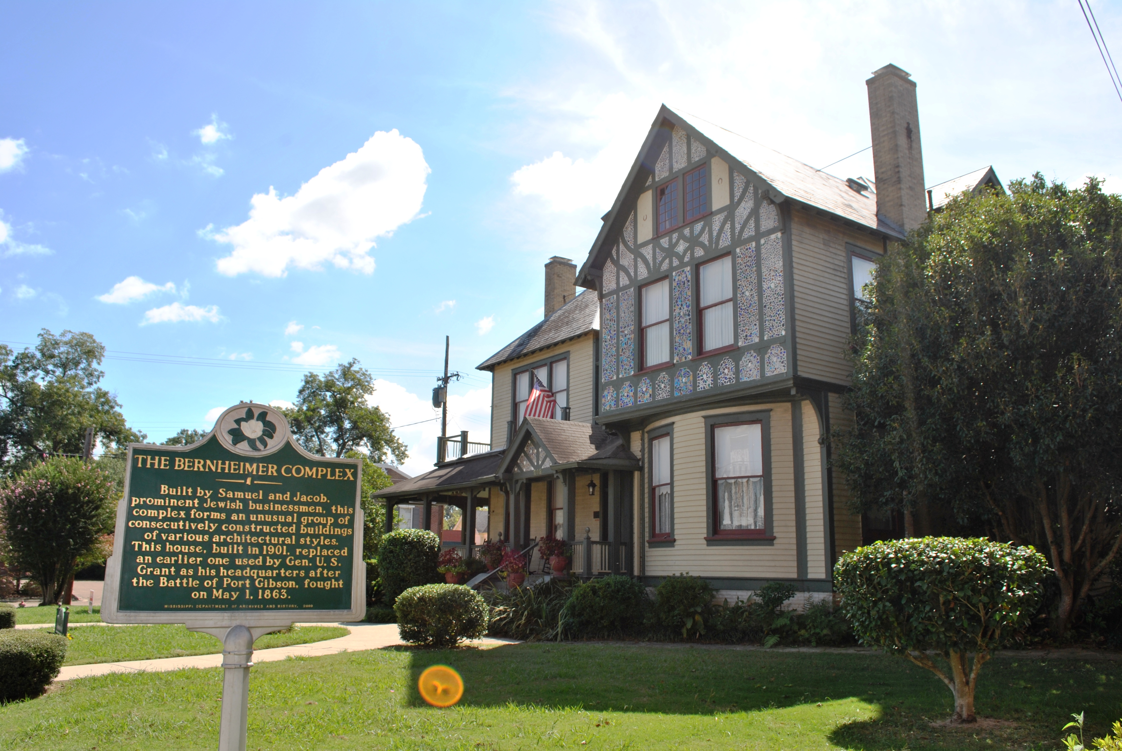 Market Street-Suburb Ste. Mary Historic District, Roughly bounded by Orange, Marginal, Greenwood, and Market Sts. Port Gibson